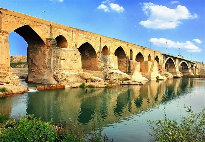 Old bridge dezful